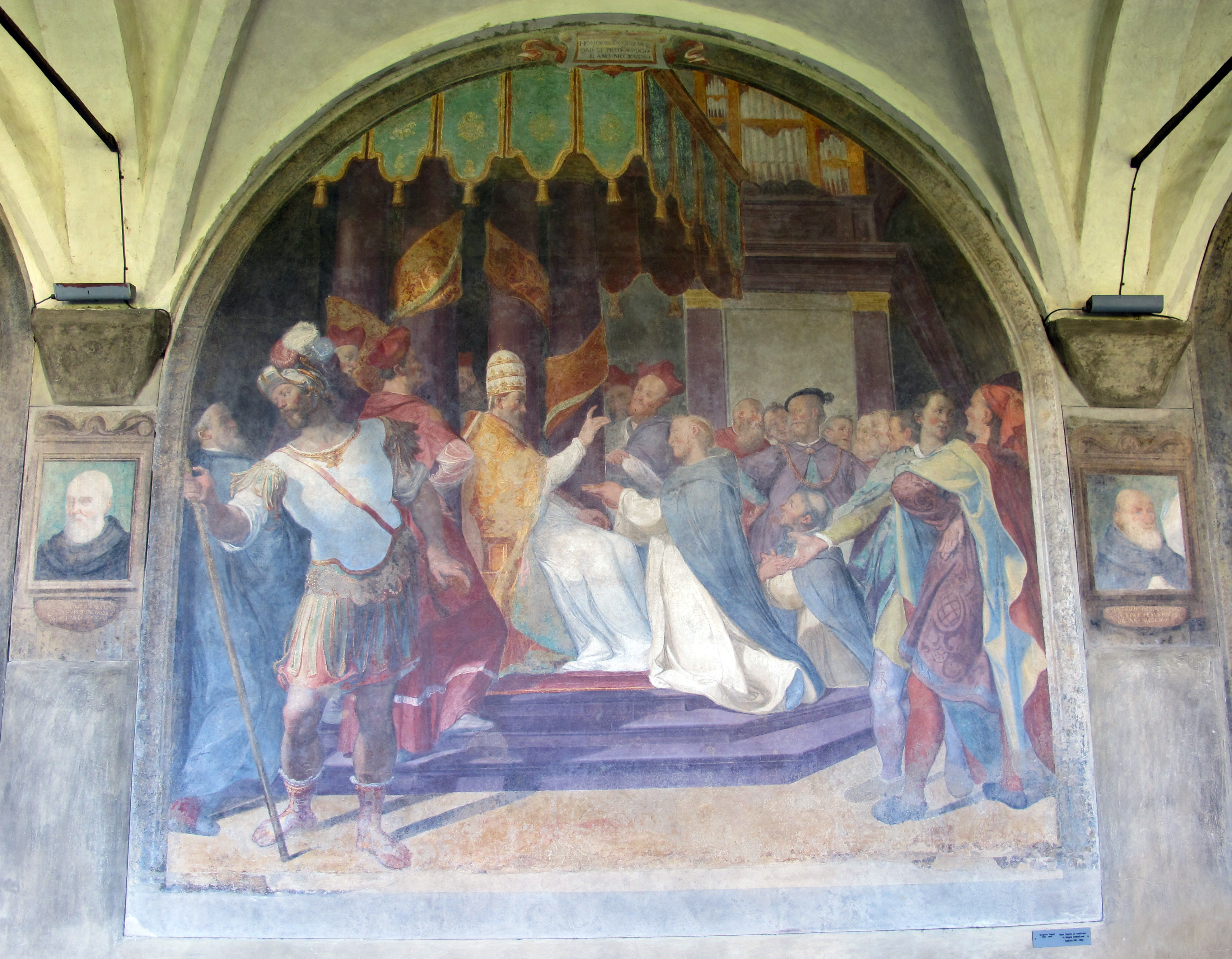 Frescos in the Chiostro Grande in Santa Maria Novella